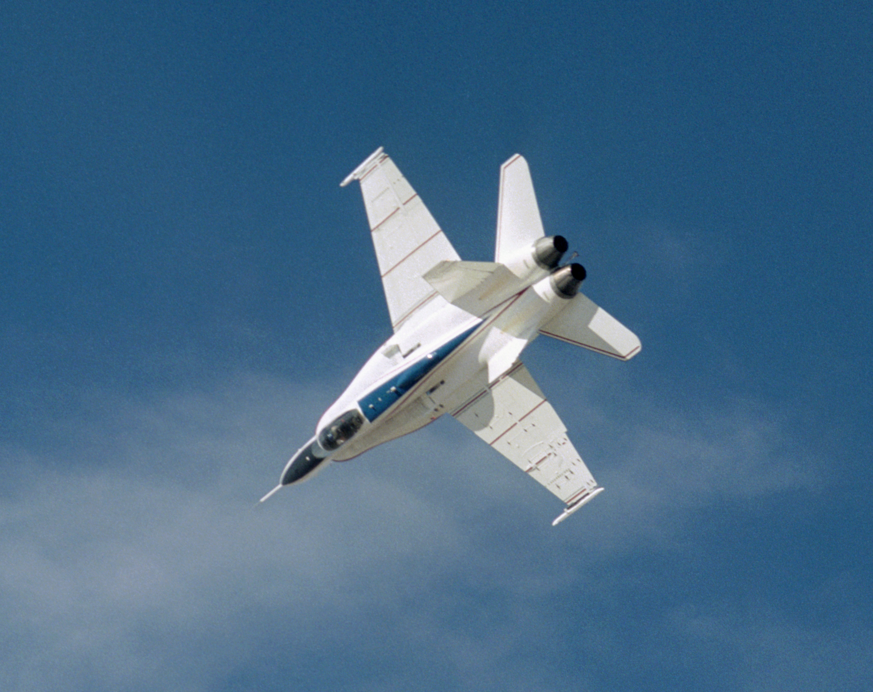 From image page: "NASA's flexible-wing F/A-18 maneuvers through a test point during the second phase of the NASA/Air Force Active Aeroelastic Wing flight research program."